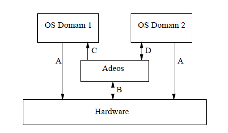 Diagram of the Adeos Architecture